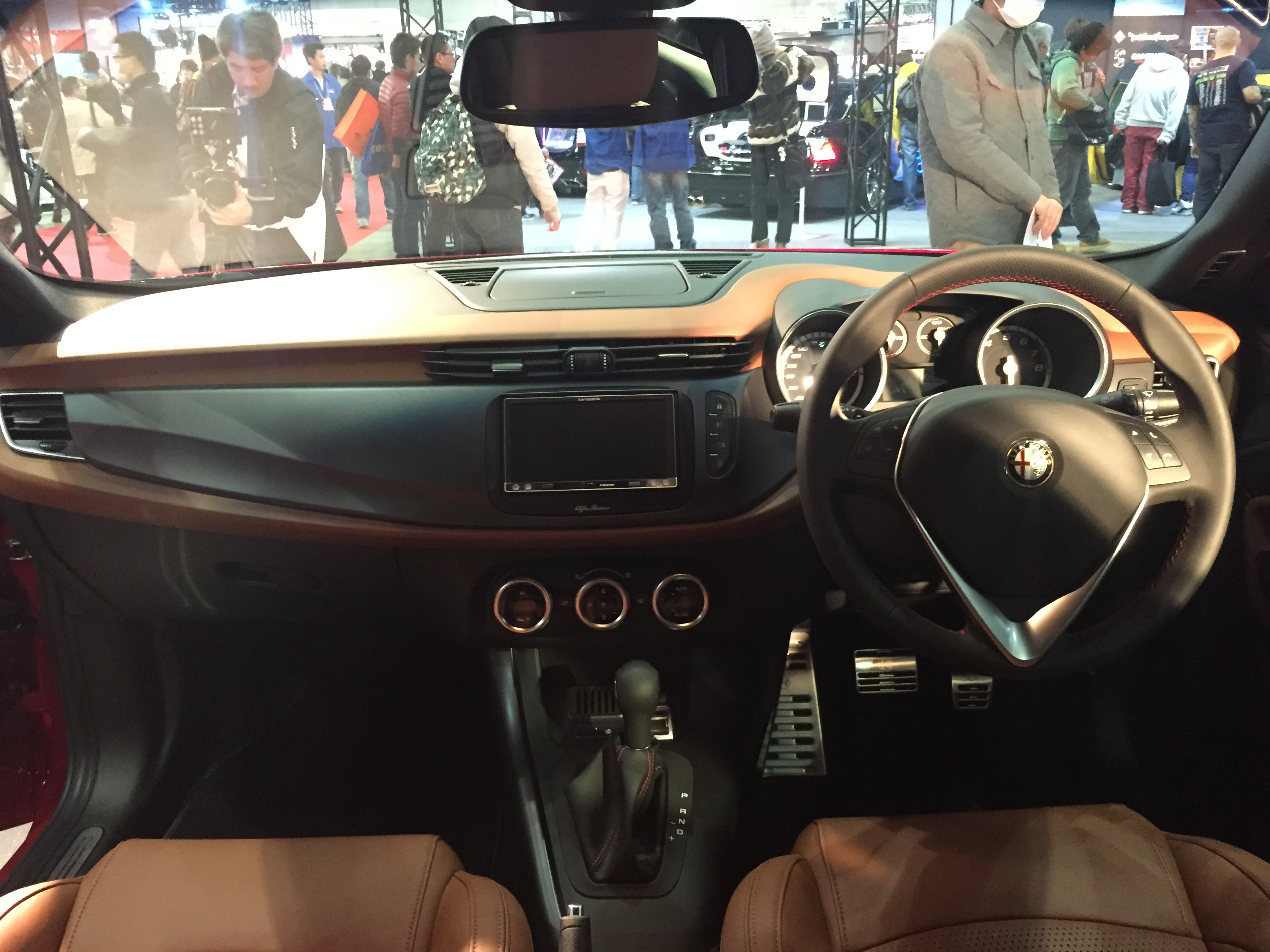 Alfa Romeo Giulietta interior photographed at the Tokyo Auto Salon 2015.